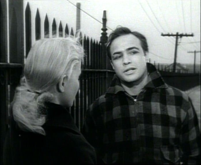 Marlon Brando and Eva Marie Saint in a screenshot from the trailer for the film On the Waterfront.